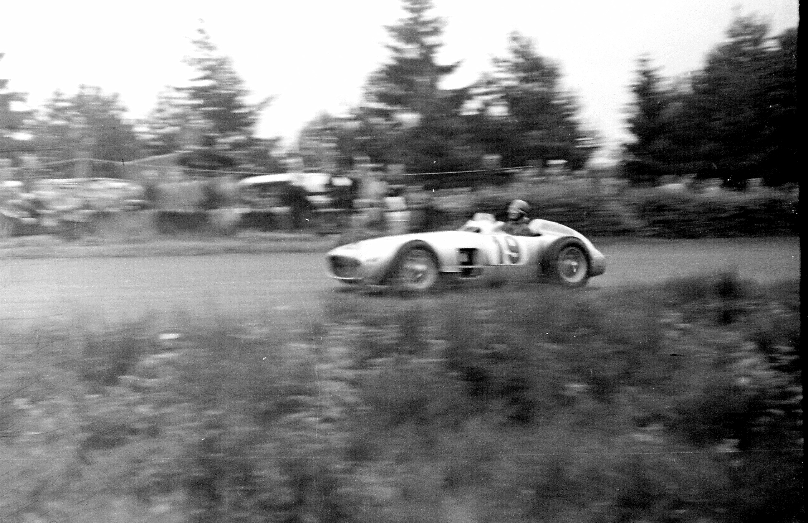 Grosser Preis von Europa, 1954, Nuerburgring Germany, Mercedes Benz W196 Monoposto, pilot: Karl Kling